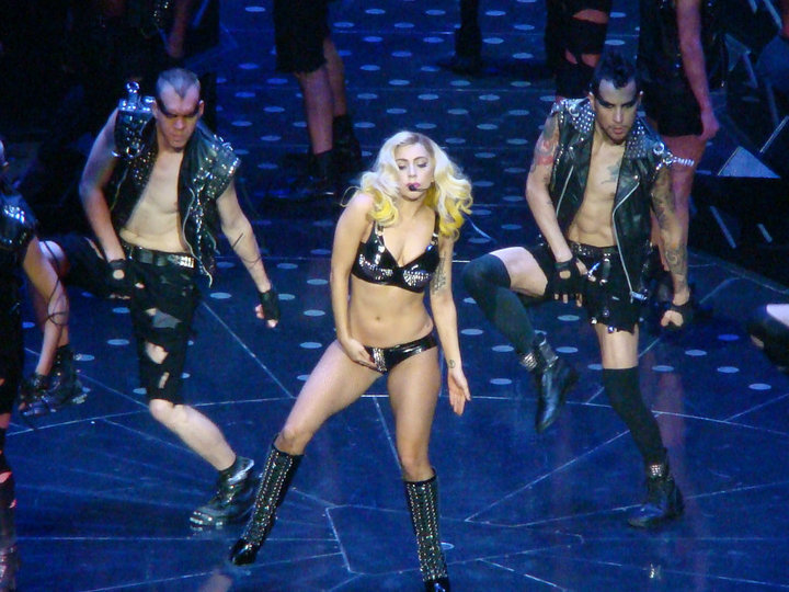 Lady Gaga performing "Telephone" at the Monster Ball in Vancouver, British Columbia Canada